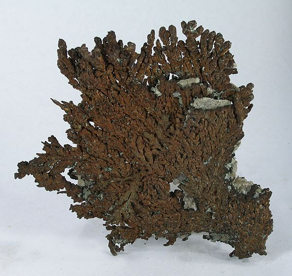 Copper Locality: Chino Mine (Santa Rita Pit; Santa Rita Mine), Santa Rita, Santa Rita District, Grant County, New Mexico, USA (Locality at ) Size: 11.2 x 9.3 x 0.4 cm. A beautiful "fan" of entirely crystallized copper, in the form of hundreds of densely-packed crystals ending in finger-like tendrils at the periphery. It is not thin, but very substantial and sturdy - in addition to being quite beautiful.